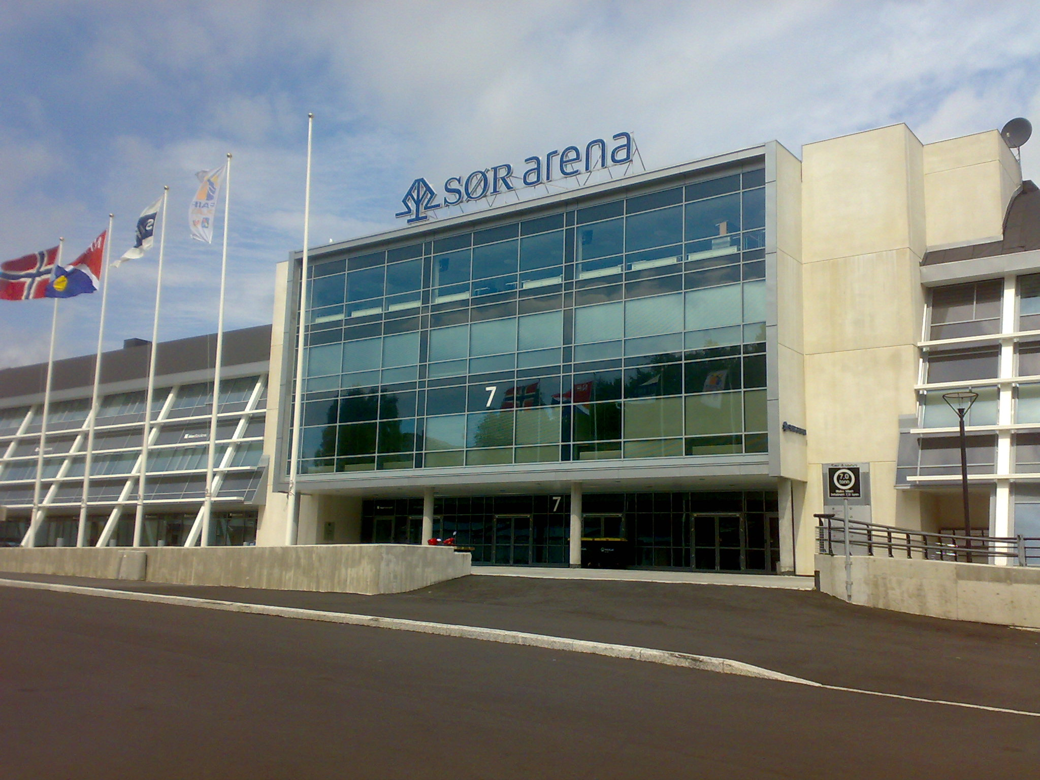 Sør Arena (Kristiansand Stadium), Kristiansand, Norway